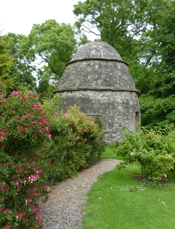 Elcho Castle, Elcho, Perth and Kinross, Scotland - dovecot